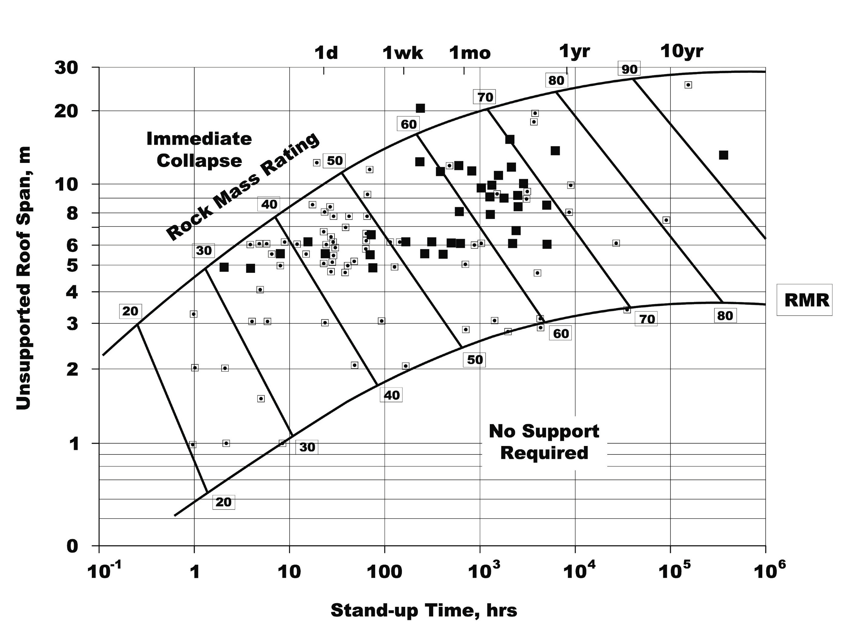 Shows the relationship between Stand Up time and tunnel span as a function of RMR